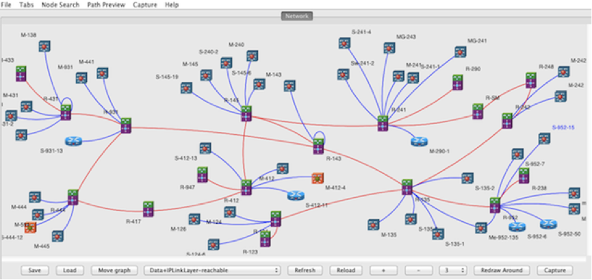 SNMP IP network discovery map